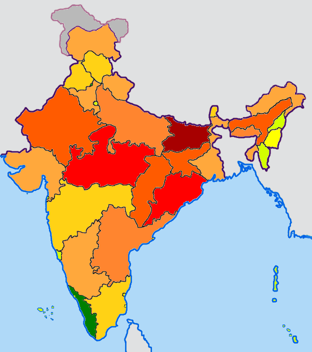 Hdi map of india states